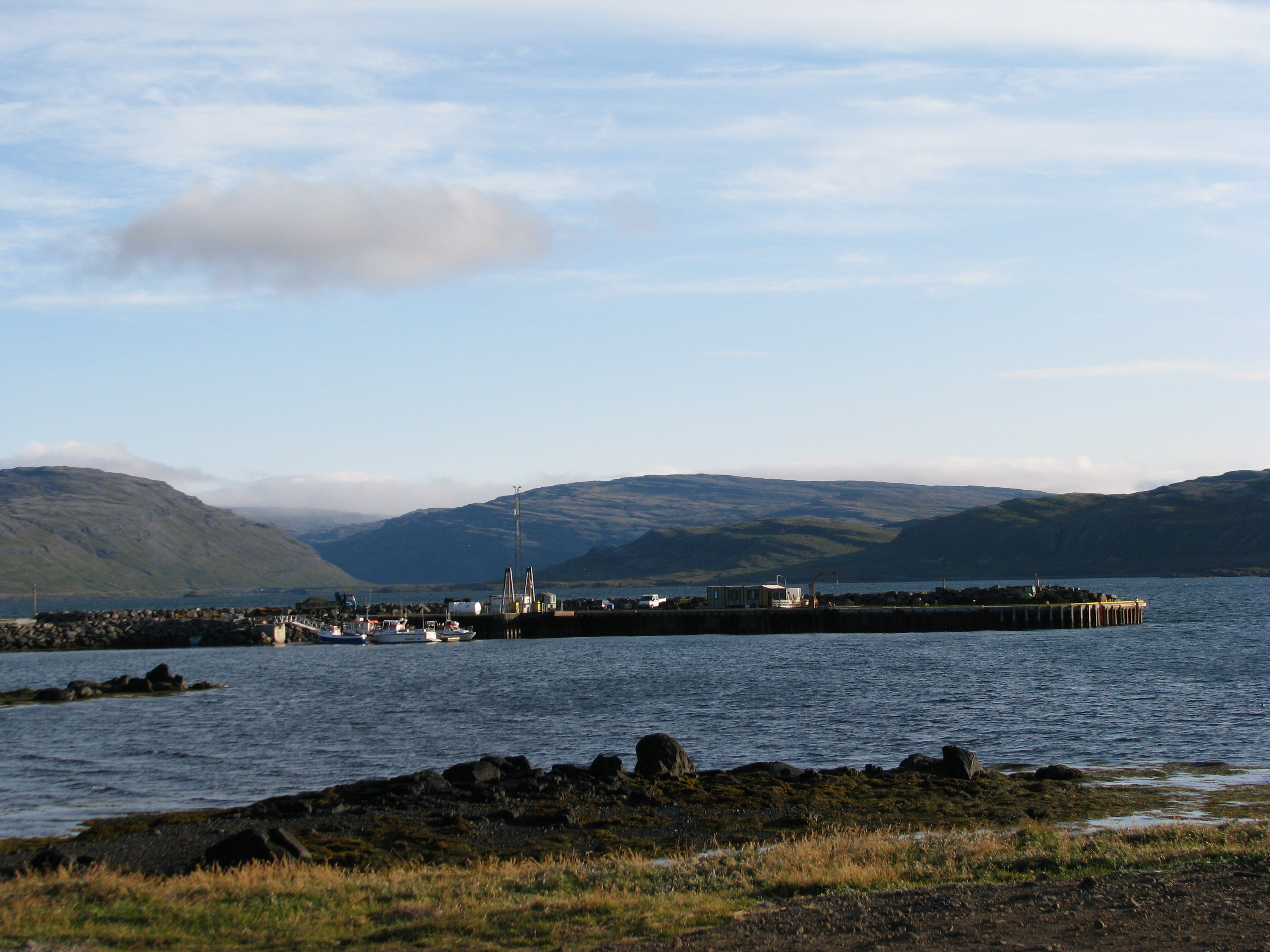 Harbour of Brjánslaekur, Iceland